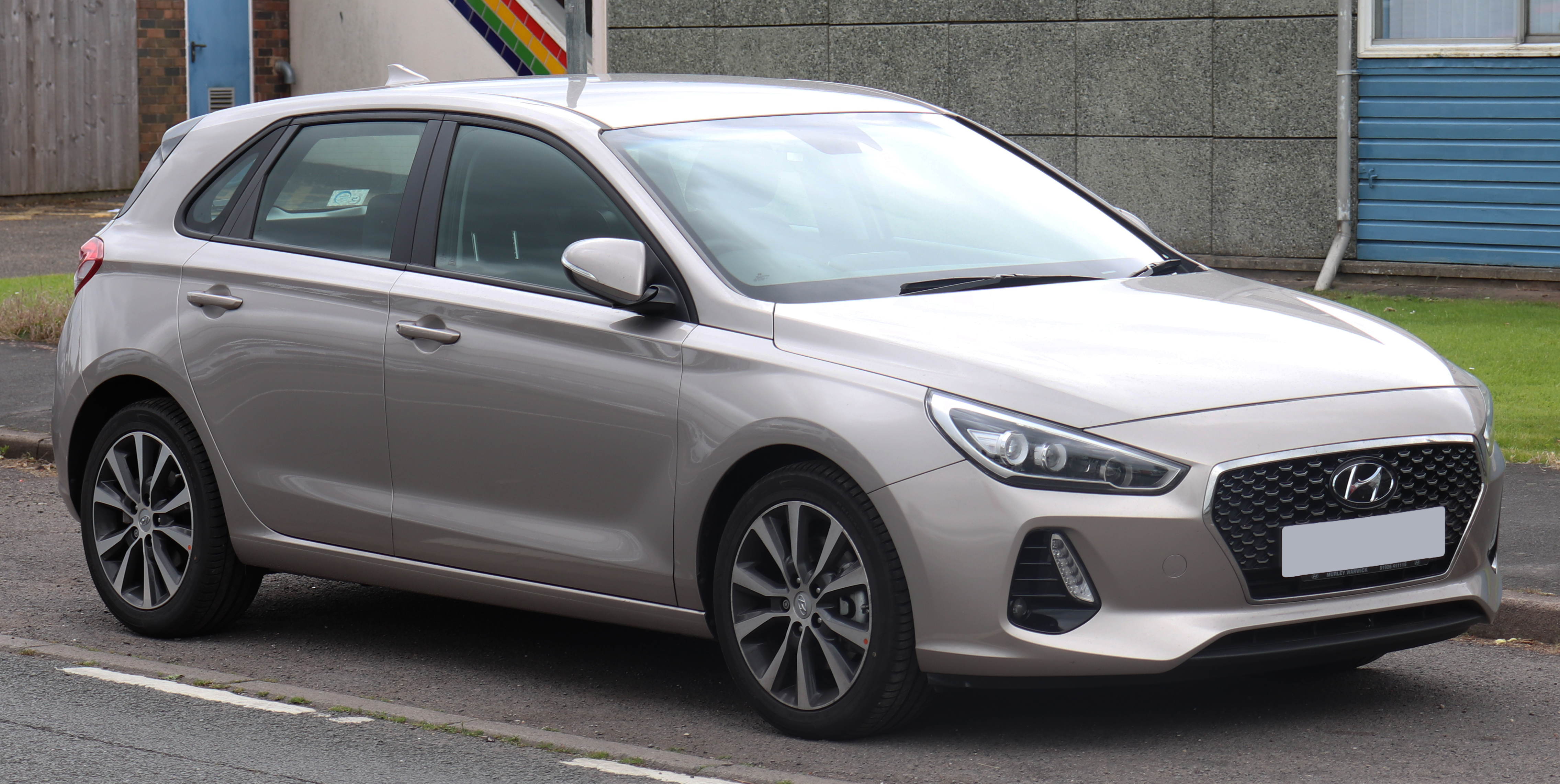 2018 Hyundai i30 SE Nav T-GDi 1.3 Front Taken in Warwick